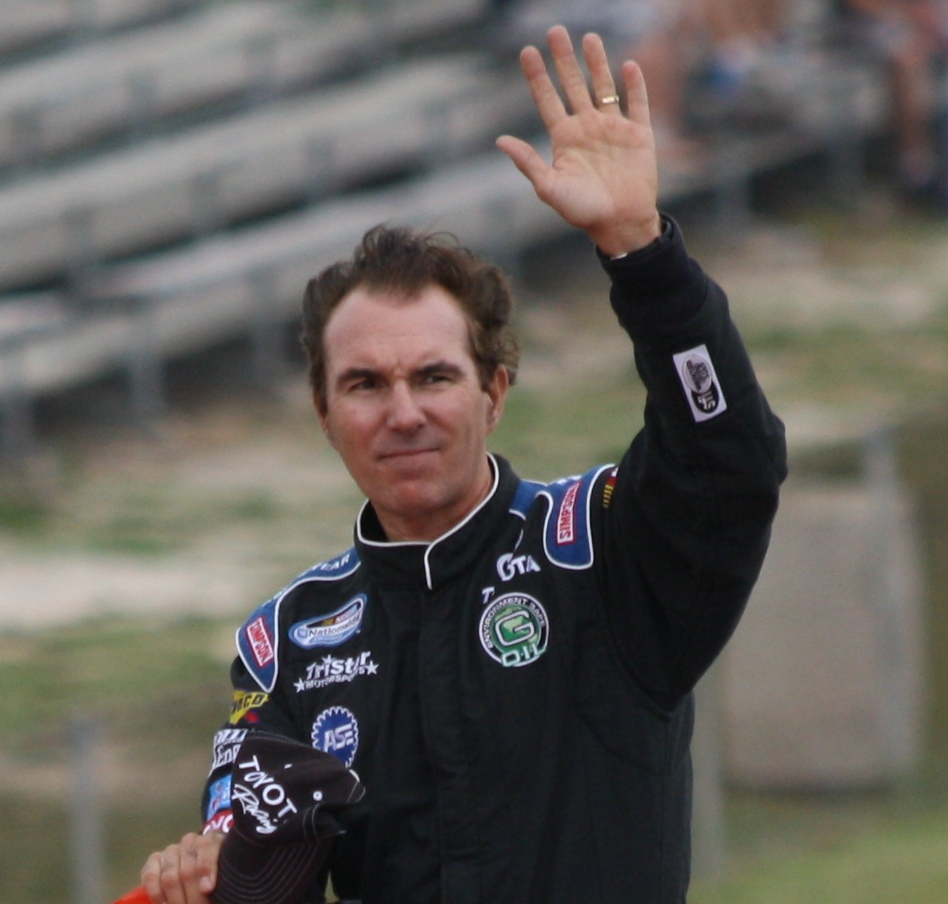 NASCAR driver Mike Bliss during driver's introductions at the 2012 Sargento 200 Nationwide Series race at Road America.